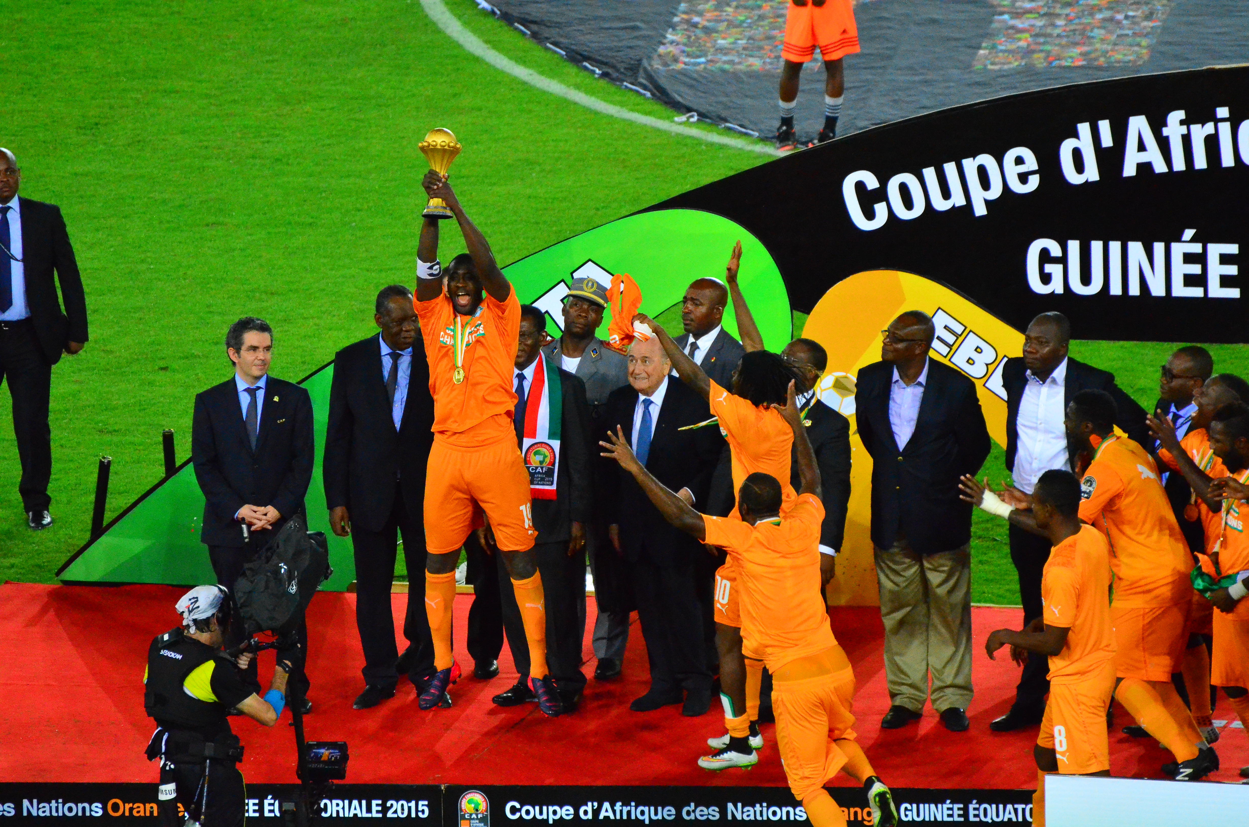 A soccer game (name of it is on file name).